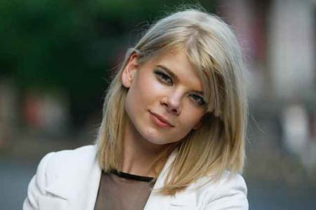 photo of poet Milica Milosavljevic Српски (ћирилица): Фотографија песникиње Милице Милосављевић